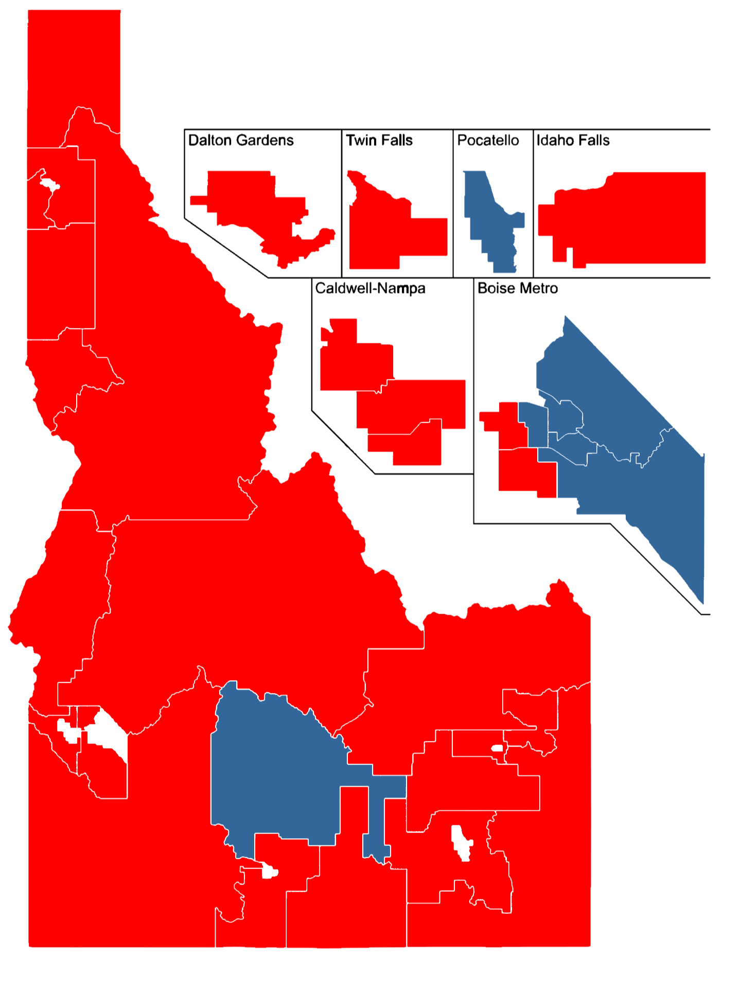 Map showing the 35 districts of Idaho State House and the members party.